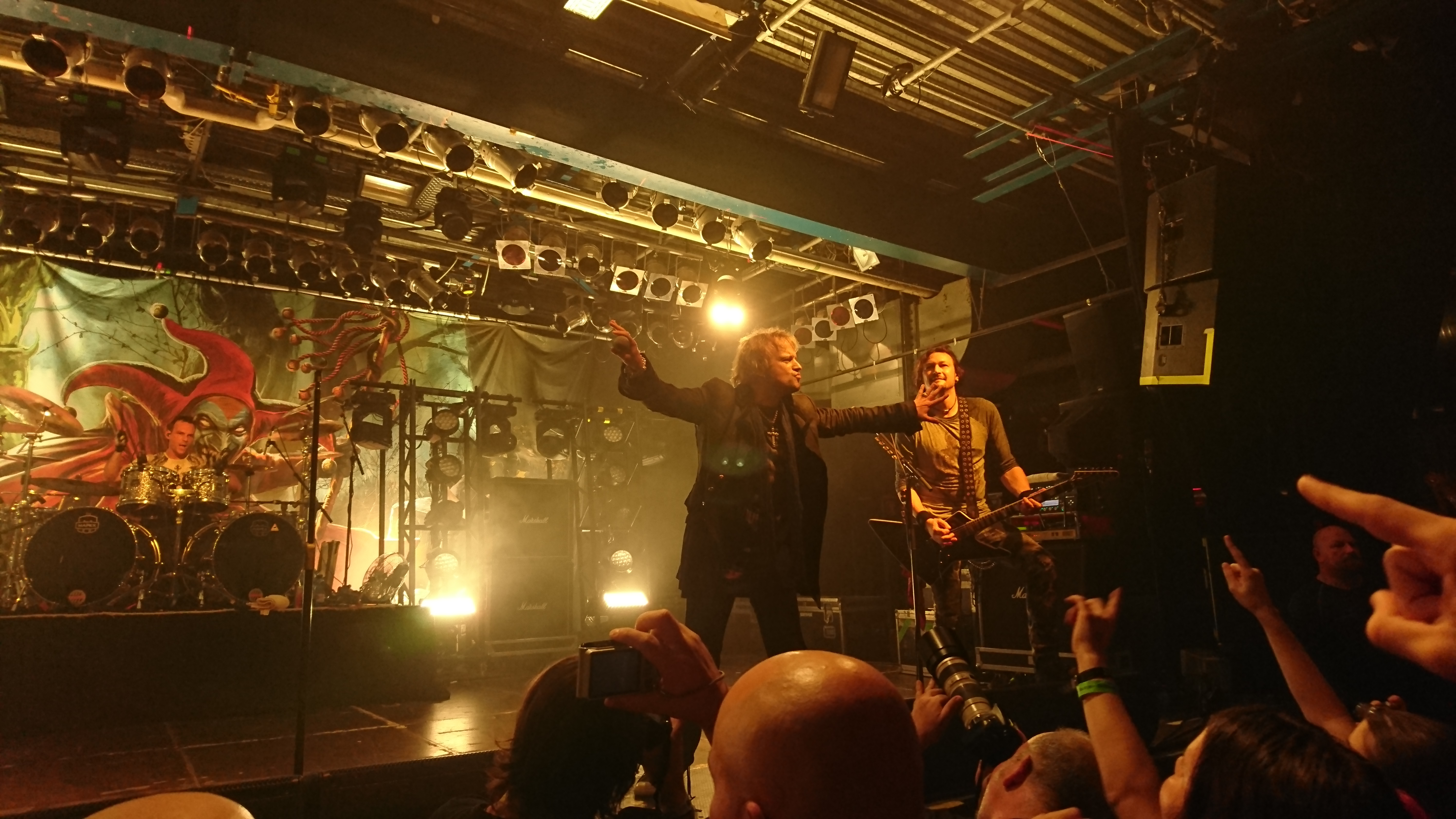 Edguy in Backstage Munich, Germany, during their 25 Years - The Best of the Best Monuments Tour 2017